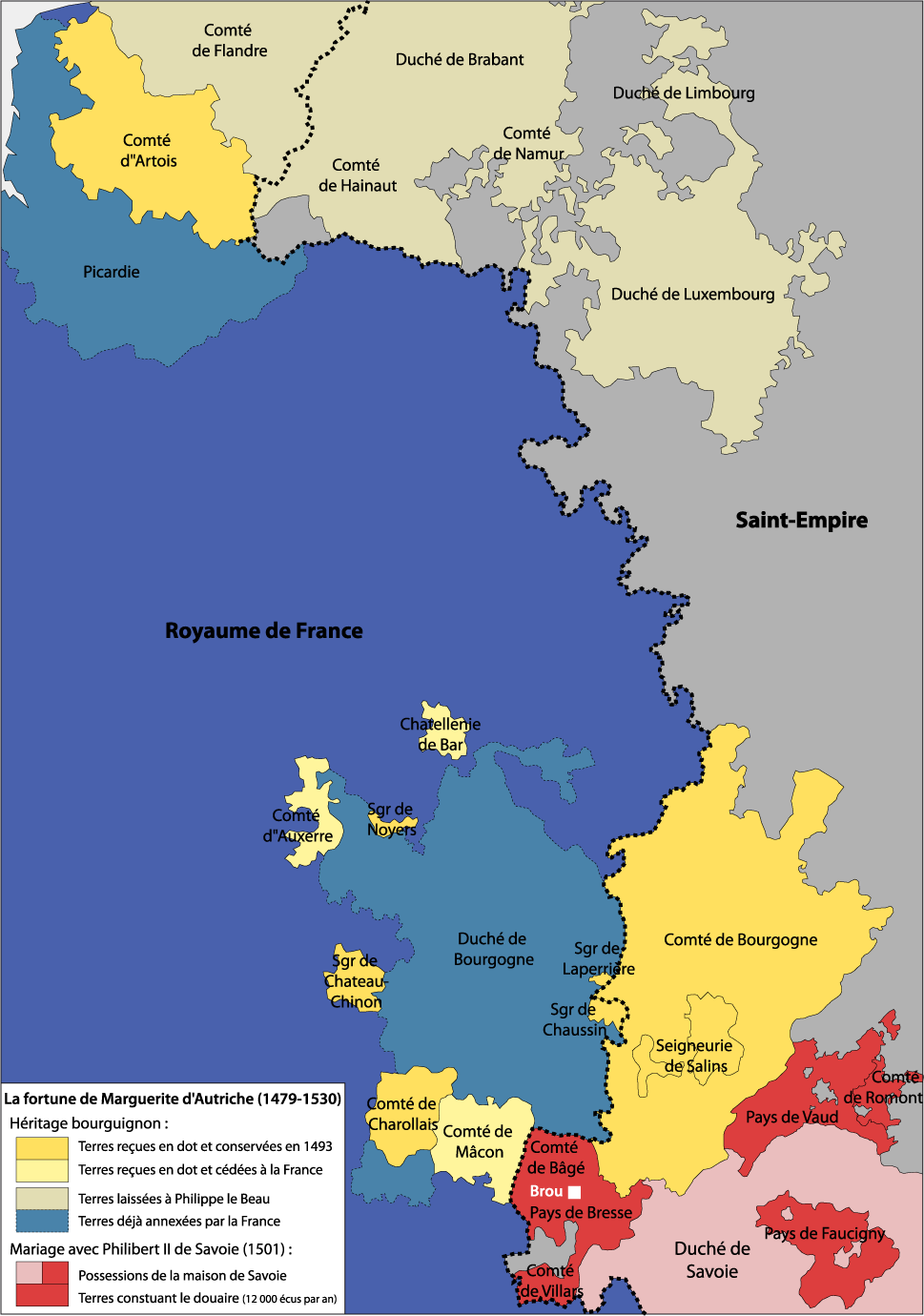 Map of the lands of the archduchess Margaret of Austria, duchess dowager of Savoye